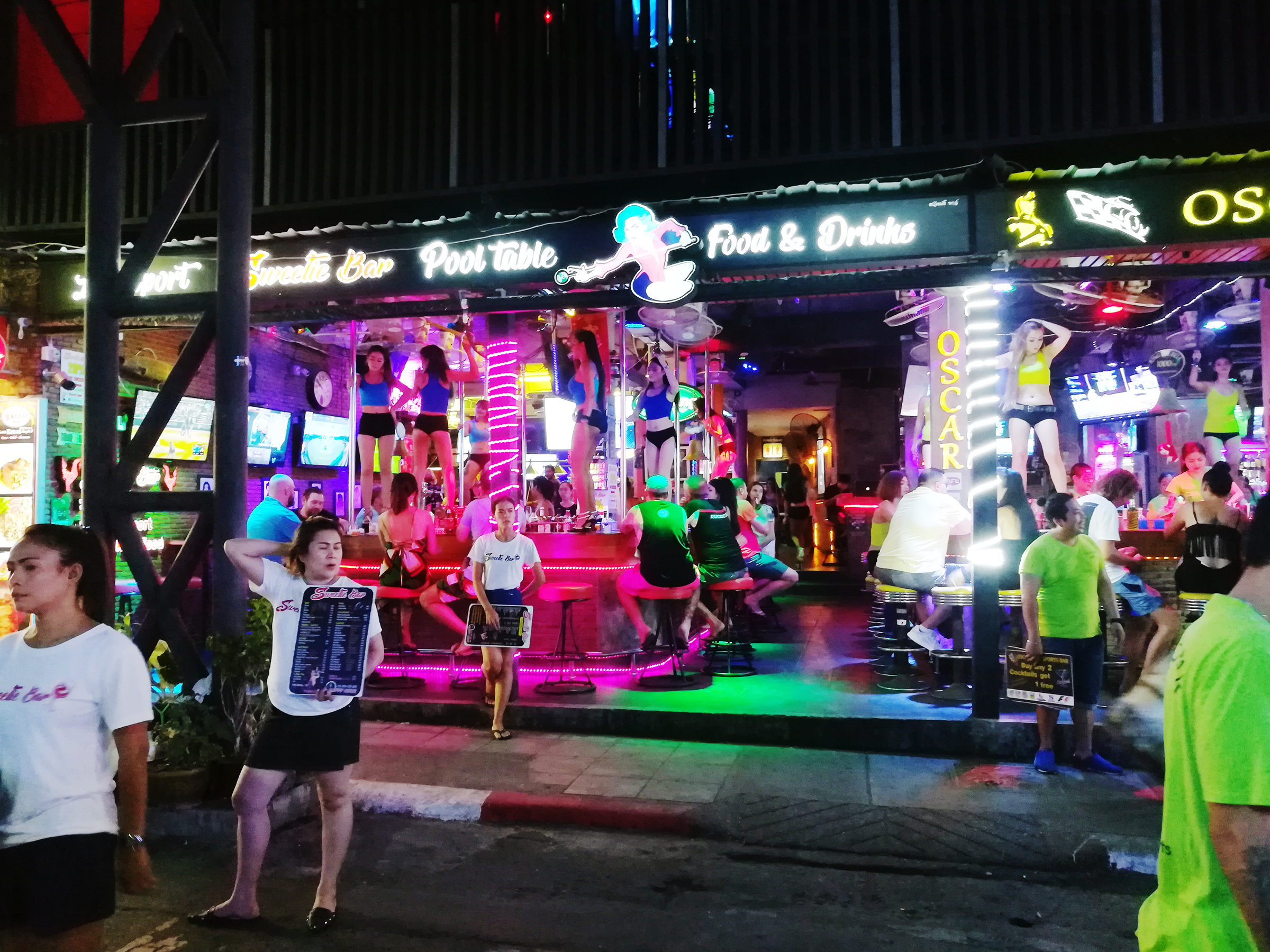 The bars on Bangla Road in the town Patong in Phuket Province, Thailand, March 2018